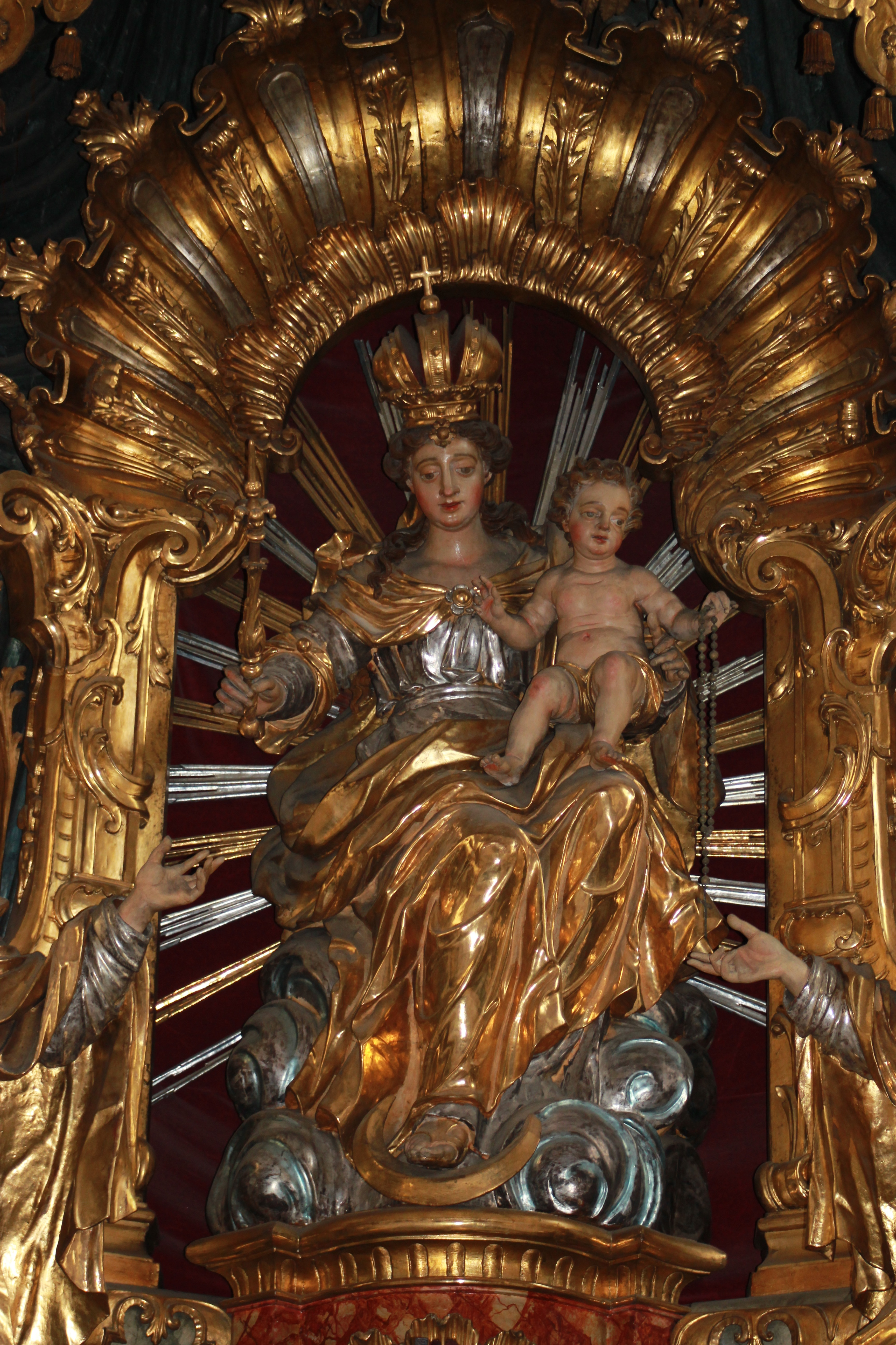 Parish church in Sankt Veit an der Glan - Main altar - detail